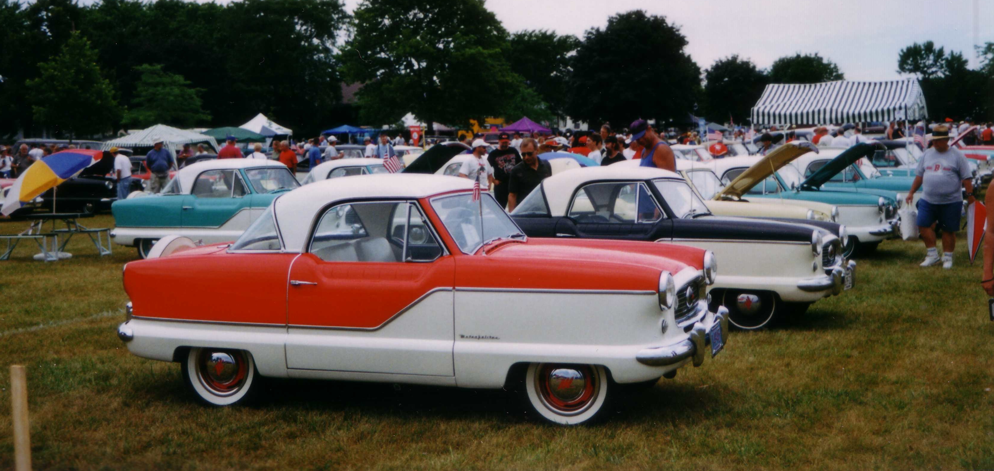 View of the automobiles at the Metropolitan Automobile Car Club meet held in Kenosha, Wisconsin. Part of the "100th Anniversary Celebration of the Rambler" events that was held in the park overlooking Lake Michigan.